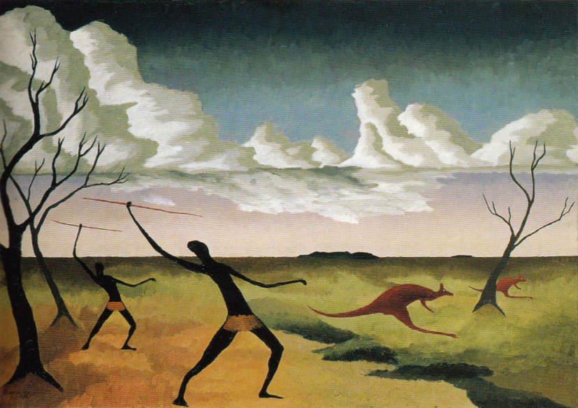 Kangaroo Hunt, oil on canvas, 64.8 x 92.7 cm, by Peter Purves Smith